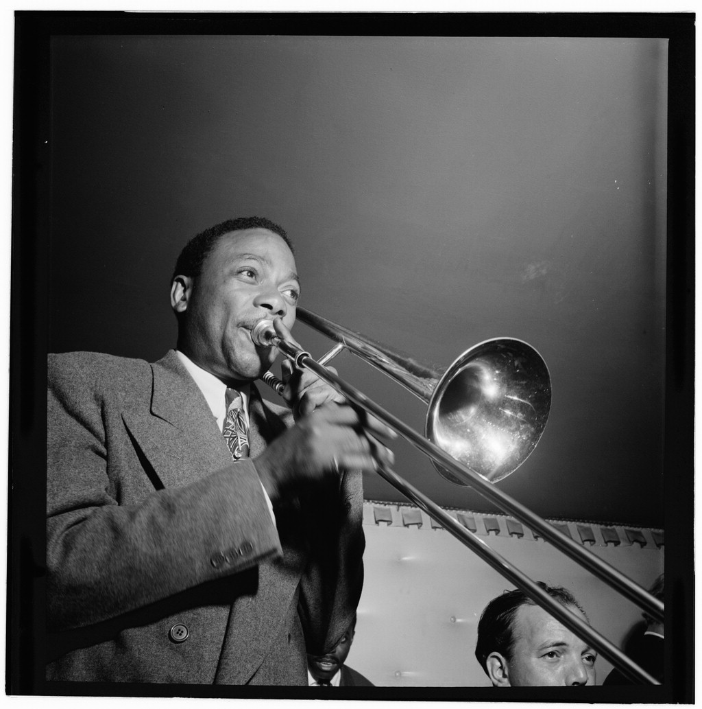 Jay Higginbotham